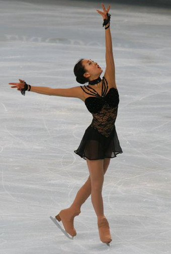 Mao Asada during her free program at the 2008 Trophée Eric Bompard.